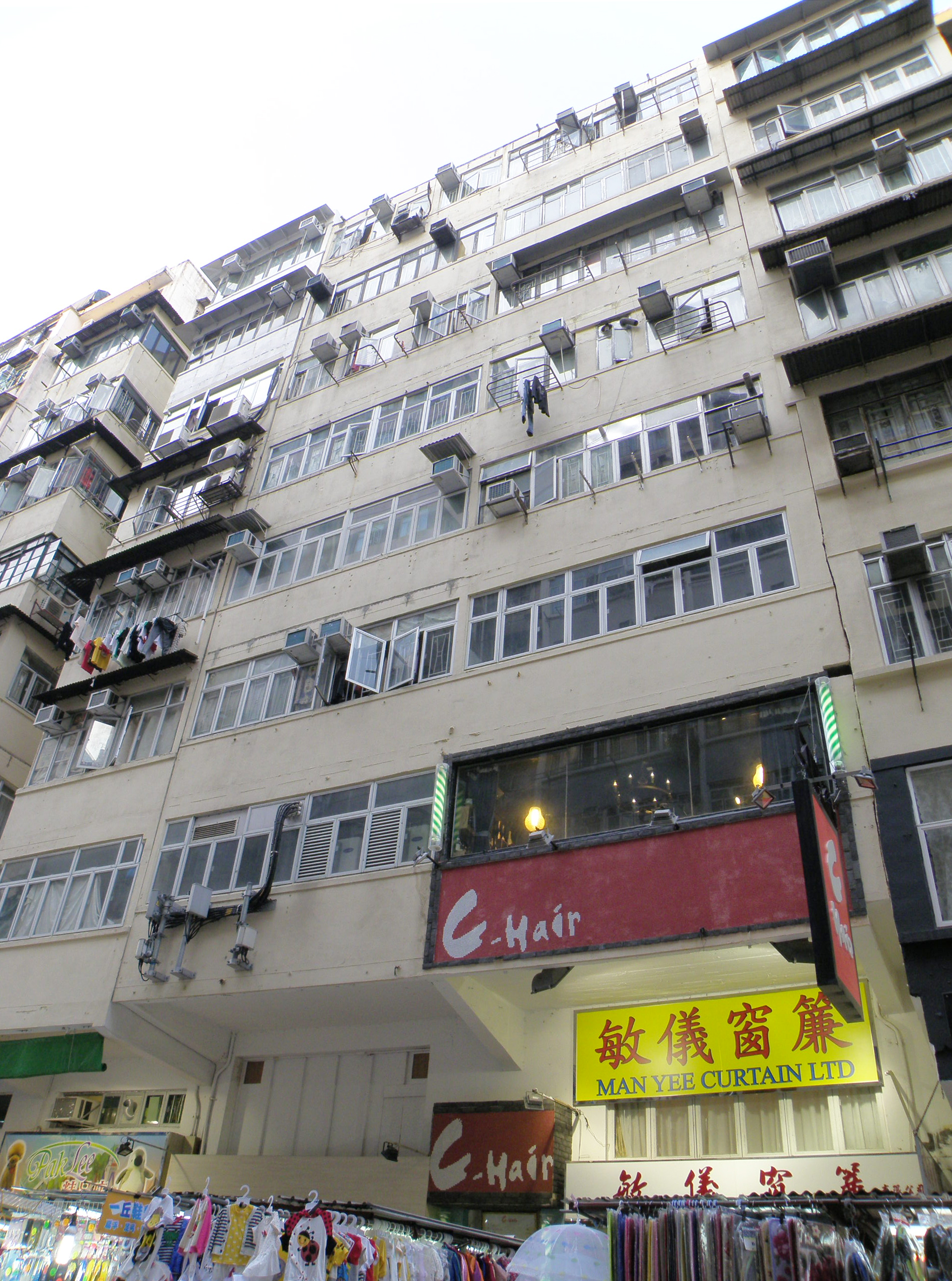 192-194 Fa Yuen Street in Prince Edward, Hong Kong.